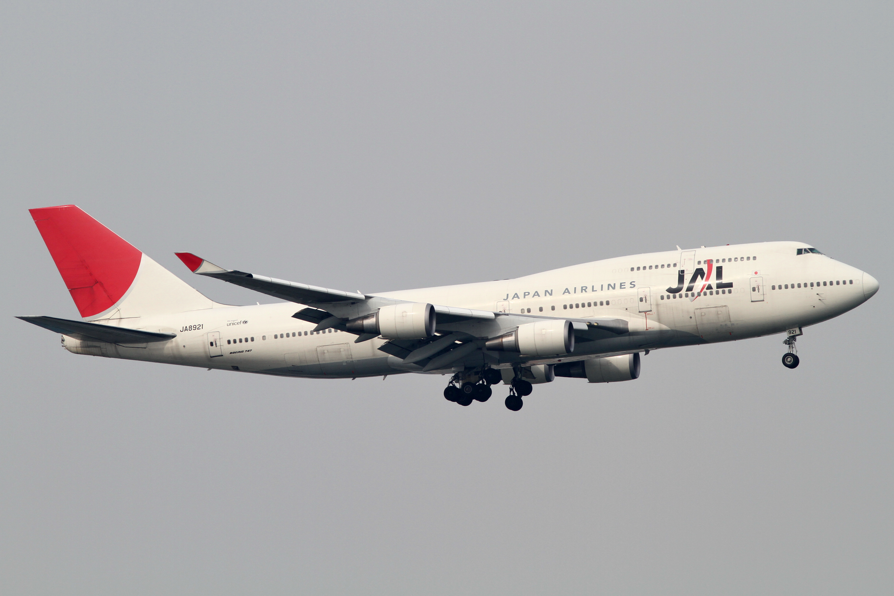 Tokyo International Airport, Boeing 747-446, c/n:27645, Japan Airlines